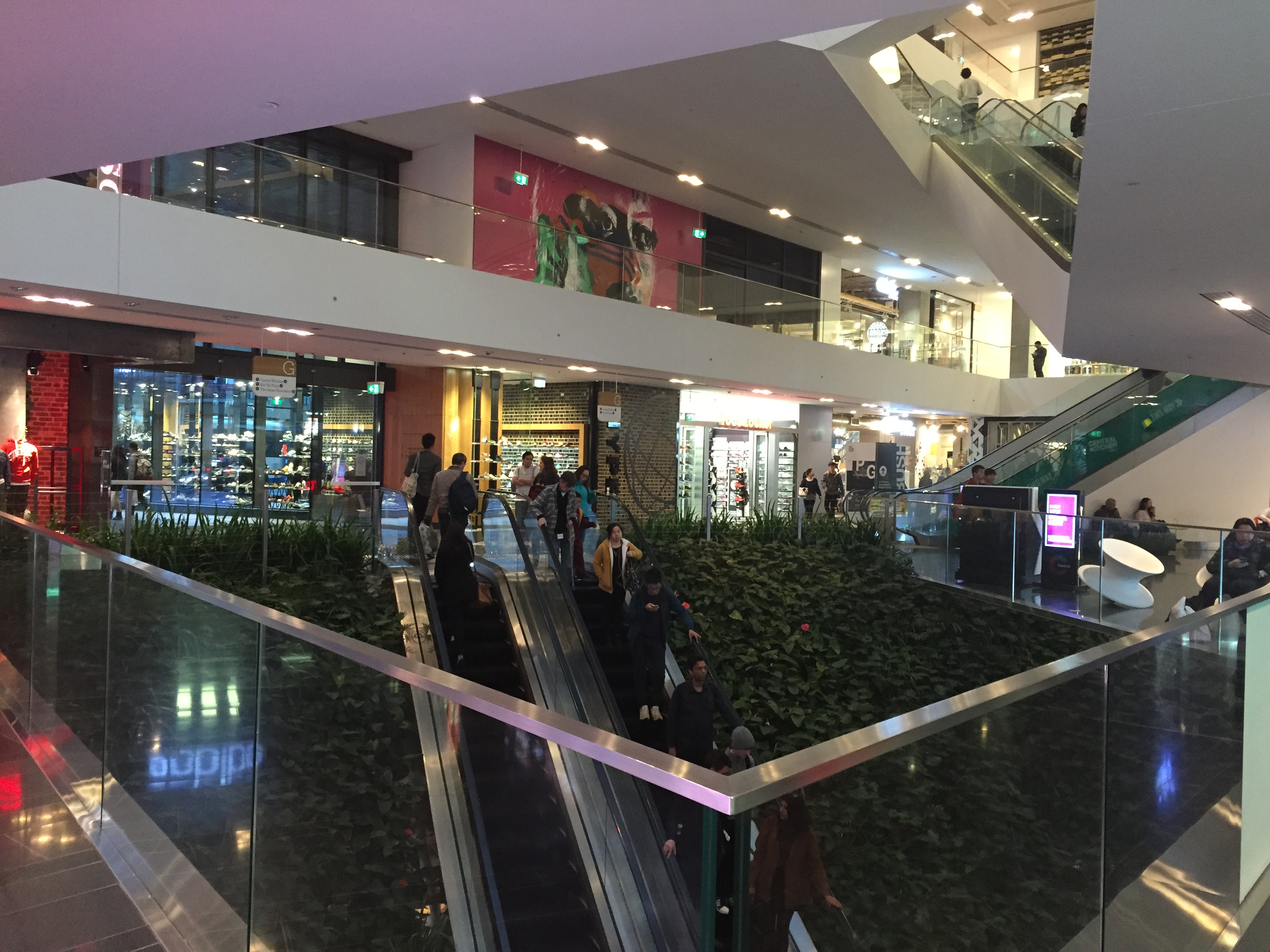 Inside the One Central Park retail precinct.